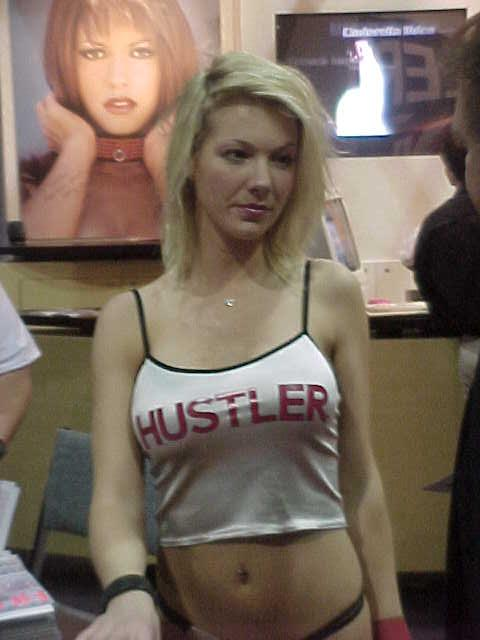 Claudia Chase at IA2000 - January 9-12 In Las Vegas